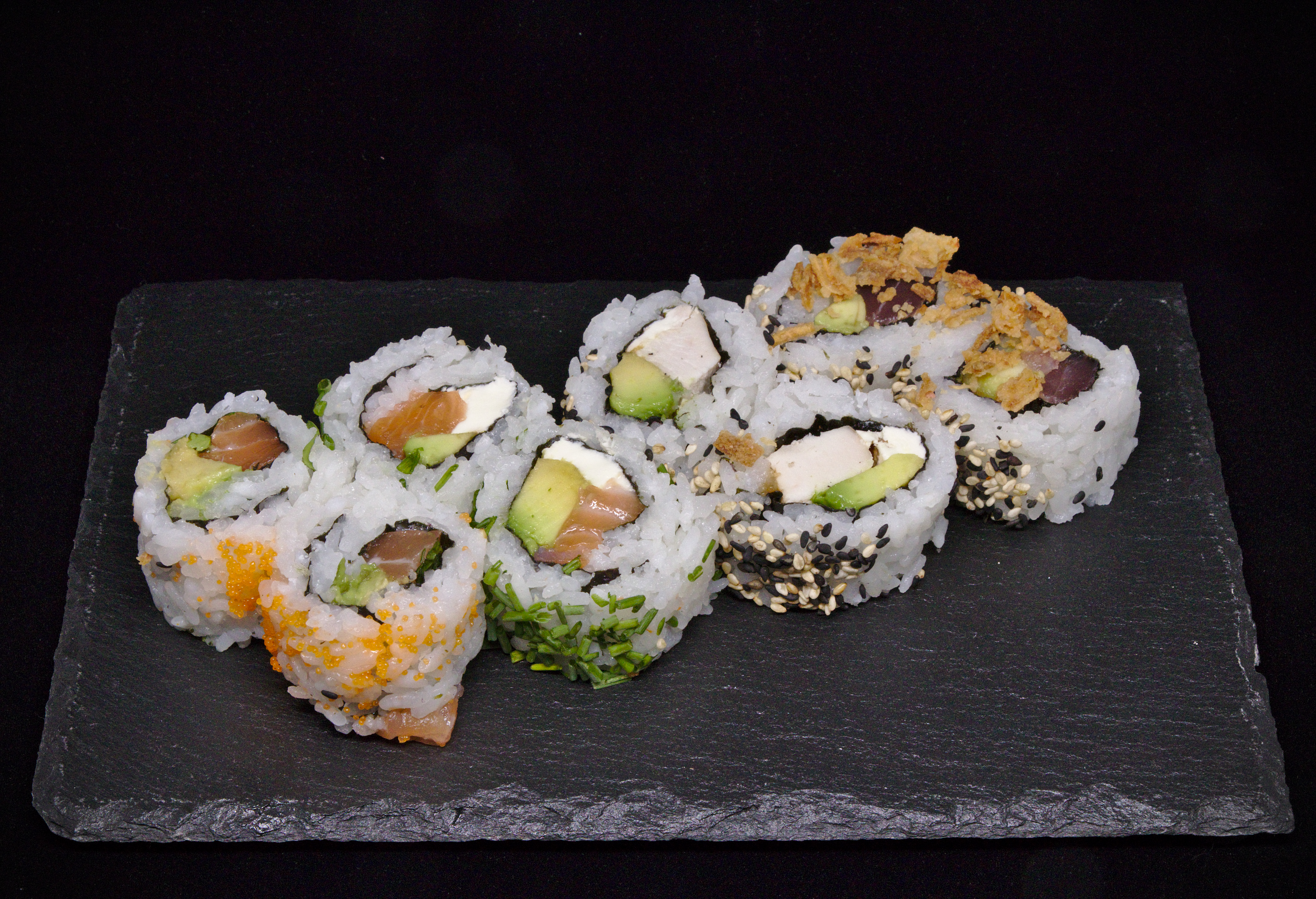 4 kinds of californian makizushi in Brussels.